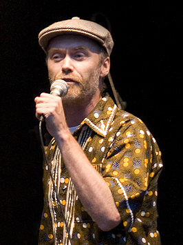 3:4 portrait crop of Governor Andy, swedish reggae artist.